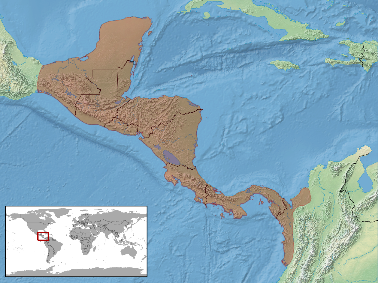 geographic distribution of Ctenosaura similis (Native: Belize; Colombia (Colombian Caribbean Is.); Costa Rica; El Salvador; Guatemala; Honduras (Honduras (mainland)); Mexico; Nicaragua (Nicaragua (mainland)); Panama / Introduced: United States (Florida); Venezuela))